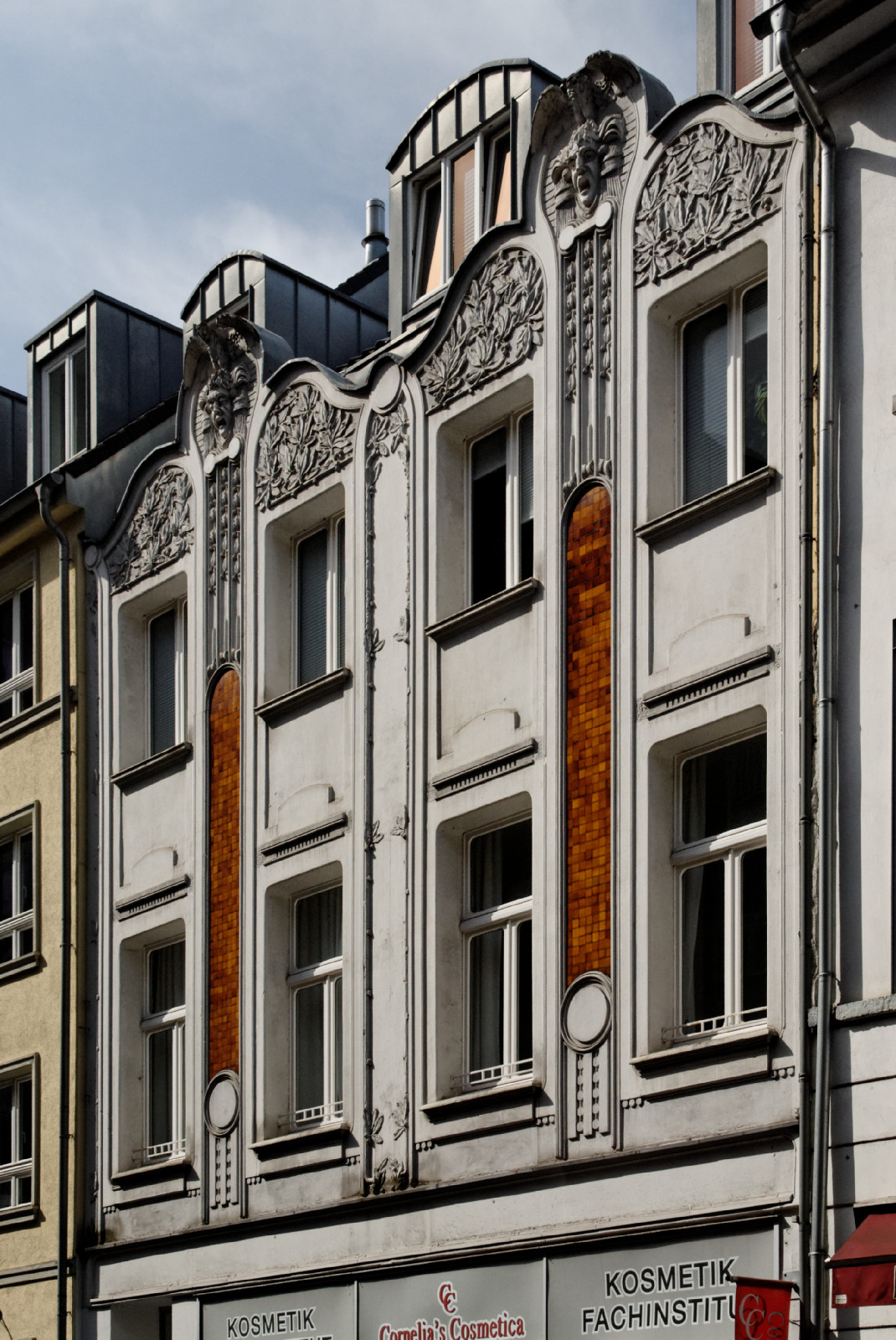 House Hohe Straße 51 in Düsseldorf-Carlstadt, Germany